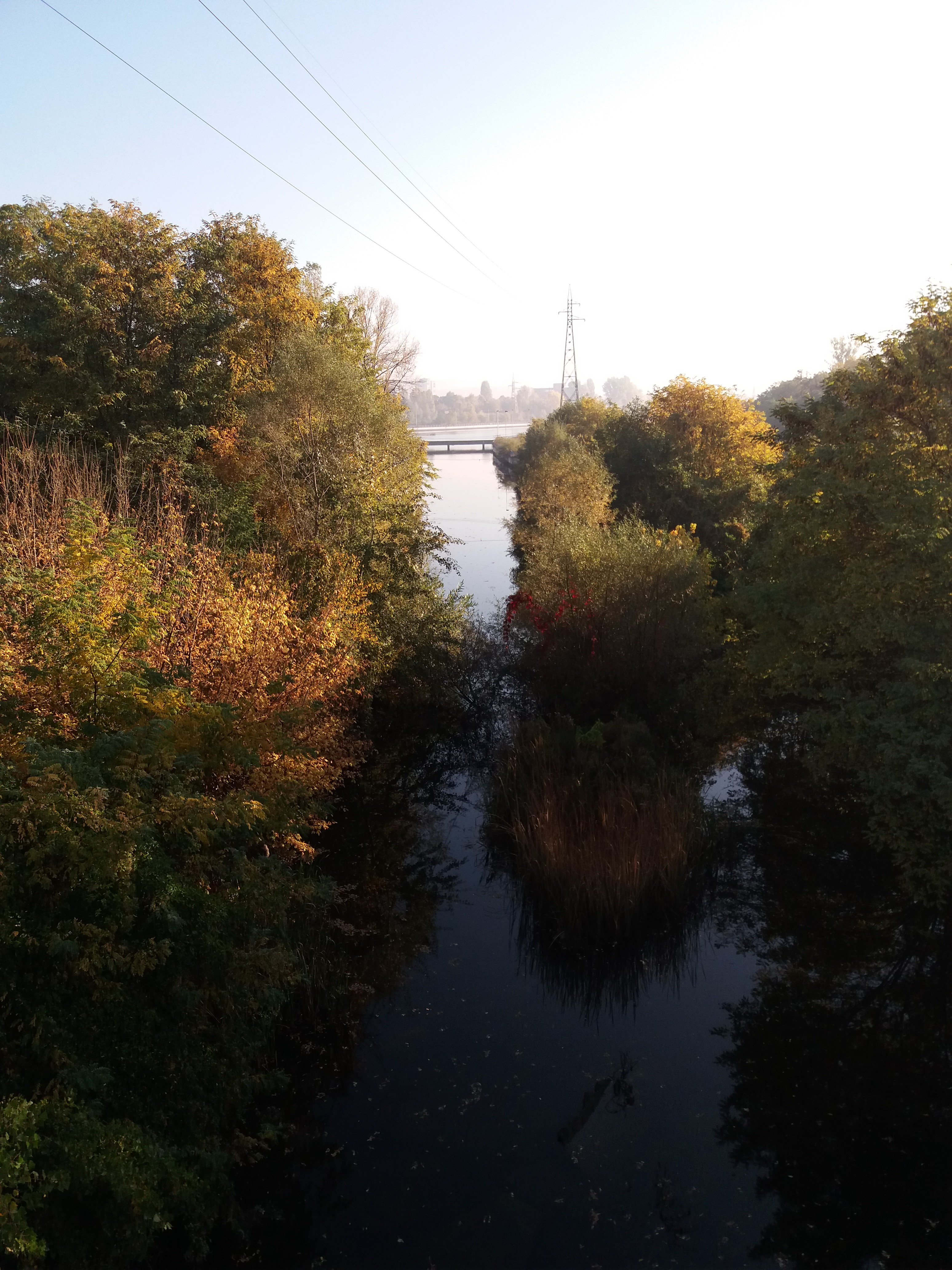 The confluence of Kyoshdere and Arda at Kardzhali, Bulgaria